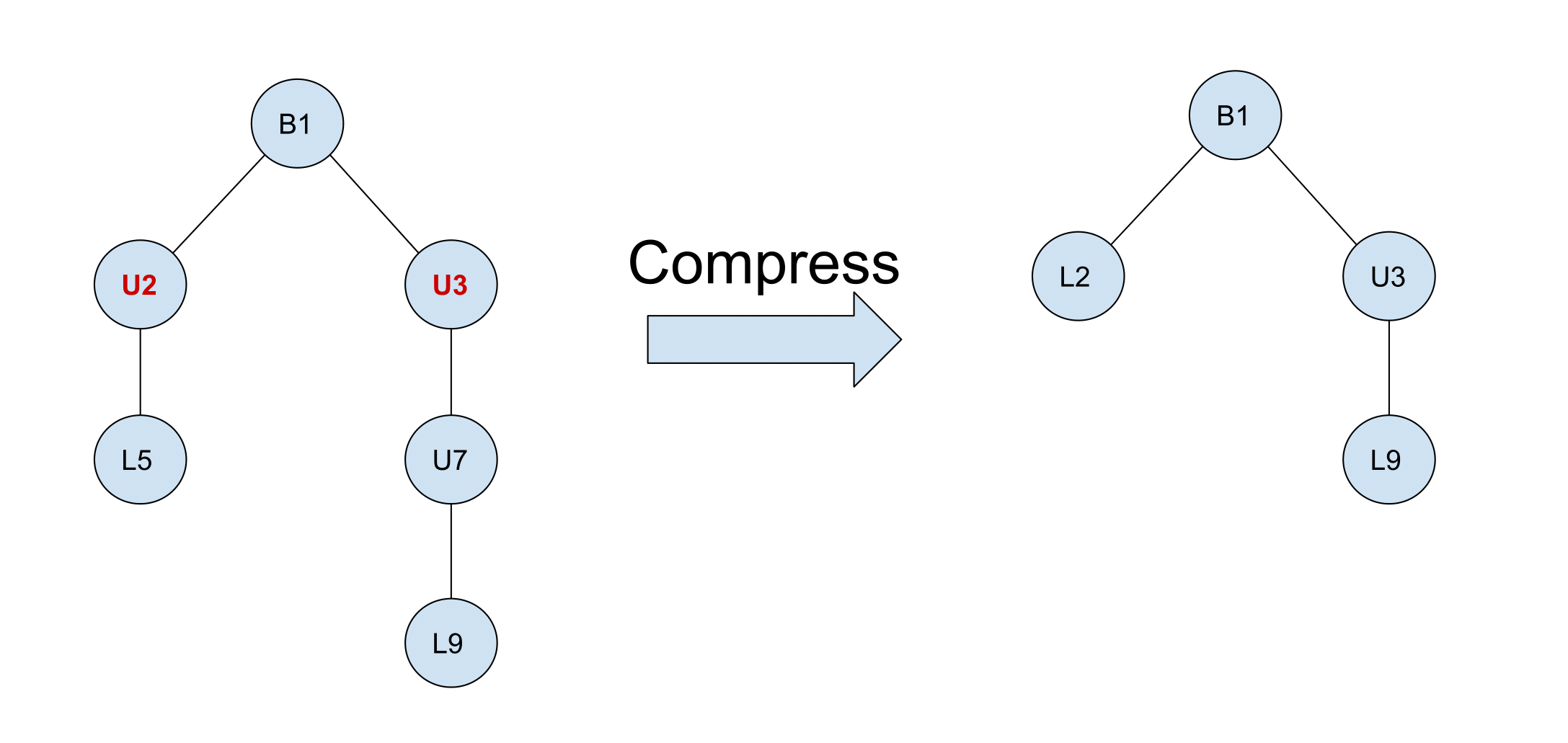 compress-1